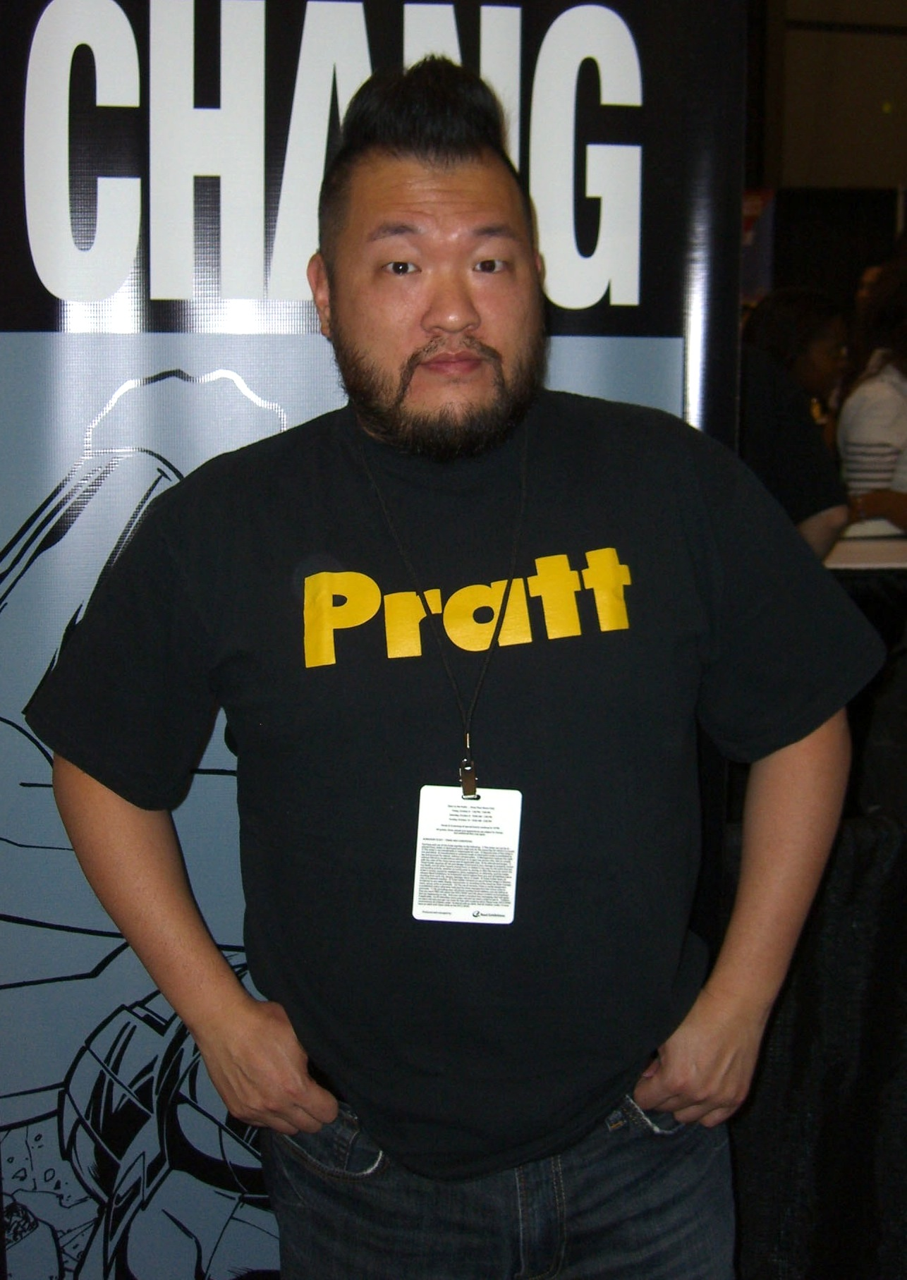 Comic book creator Bernard Chang, at the New York Comic Convention in Manhattan, October 9, 2010. Photo by Luigi Novi. This photo may be used, modified and published for any purpose, only if a easily visible credit to the photographer is placed near the photo in each instance in which it is used. (See licensing information below.) Publication of this photo without this proper attribution constitute copyright infringement. For more information on my photos, you can contact me here.